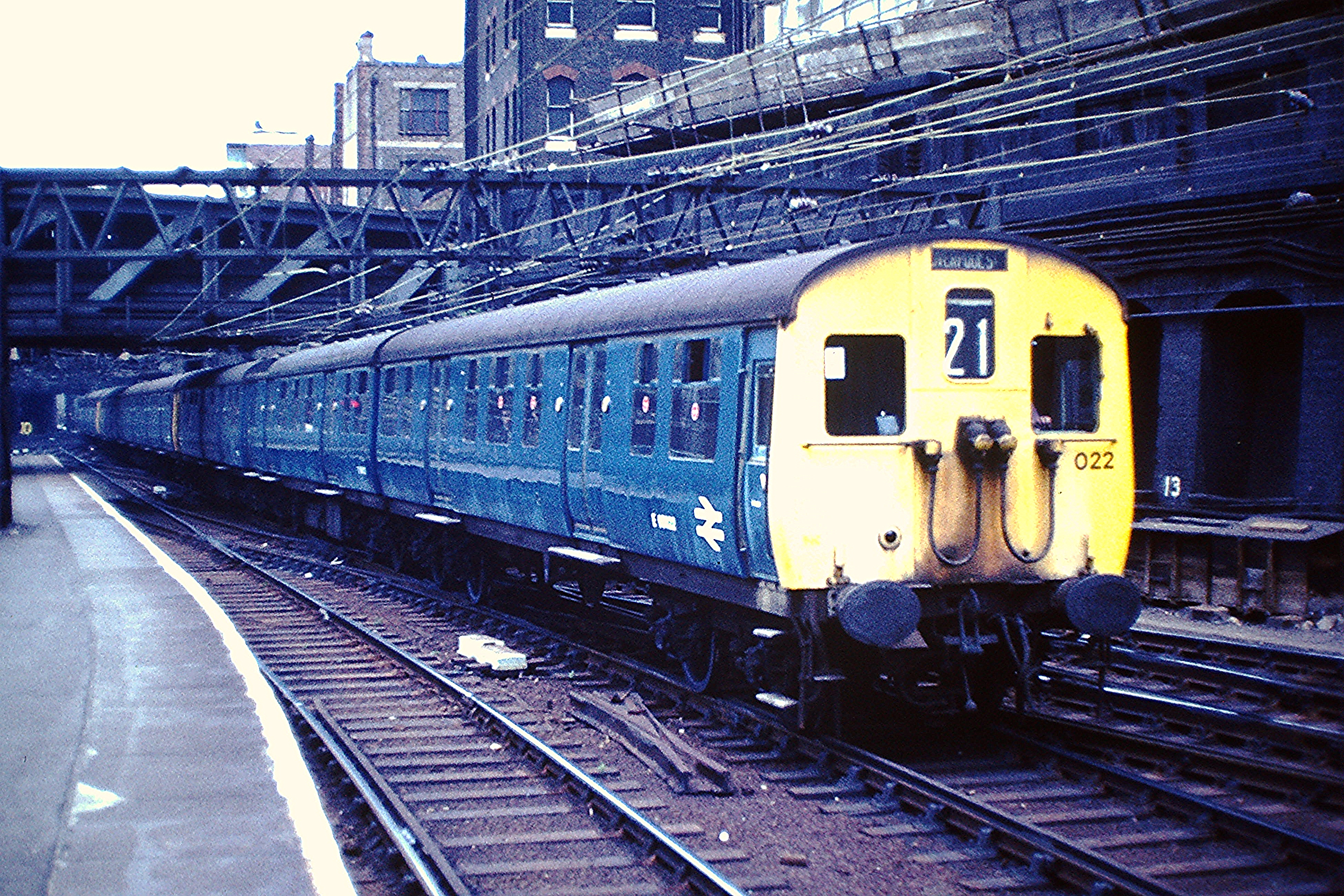 BR(ER) procured, but LNER-designed, 25k V ac overhead (but originally 1,500 V dc overhead) Class "306" (originally Class "AM6") inner-suburban 3-car emu No.022 (later Class 306 022) in BR Rail Blue livery with all yellow front end entering Liverpool St on a service from Shenfield, at Liverpool Street, 05/75 (day unknown). Scanned slide taken with an Exacta.